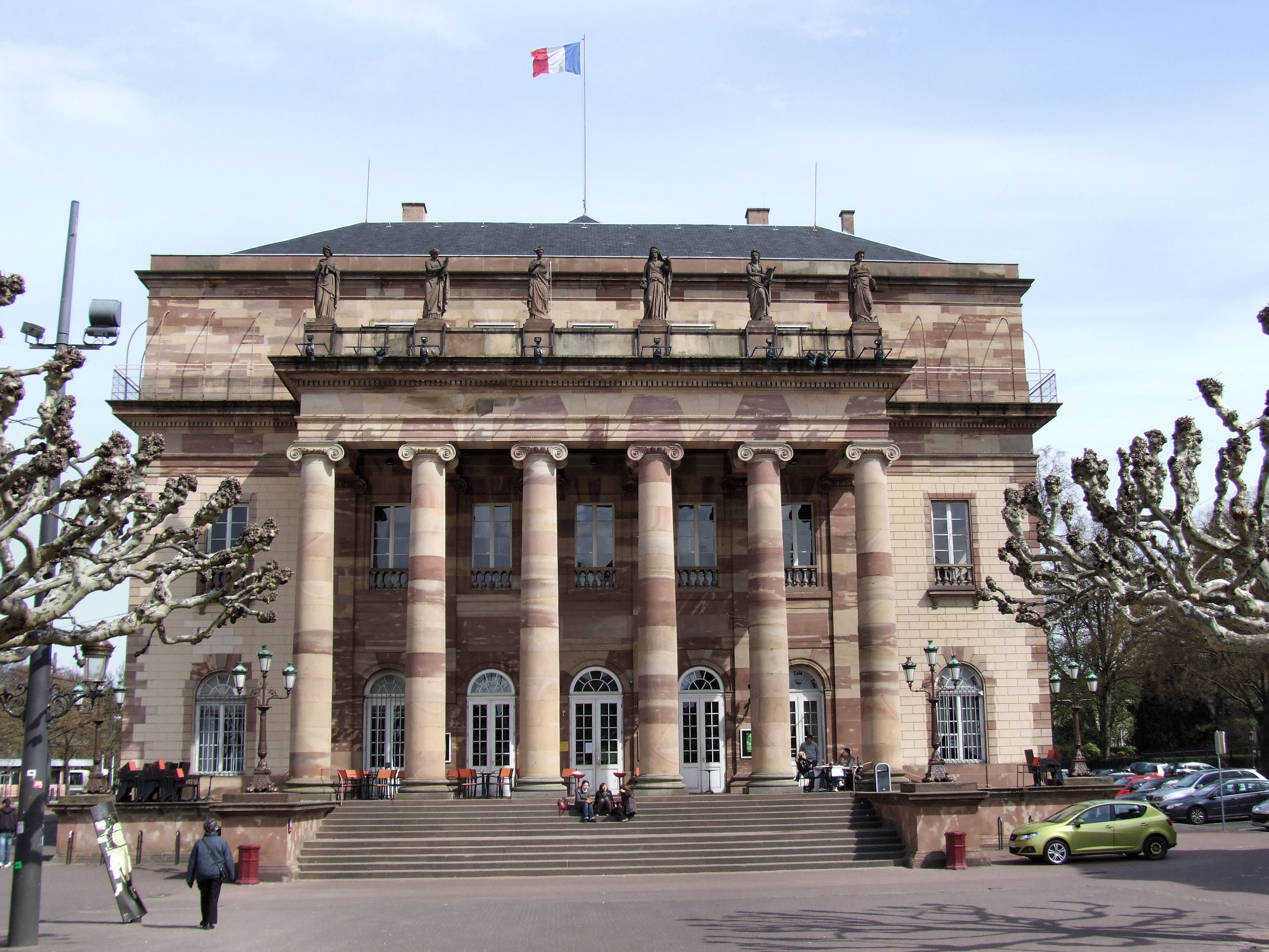 The Opera House, Place Broglie, Strasbourg